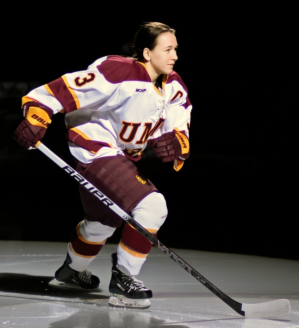 University of Minnesota-Duluth defenseman Jocelyne Larocque, Feb. 26, 2011